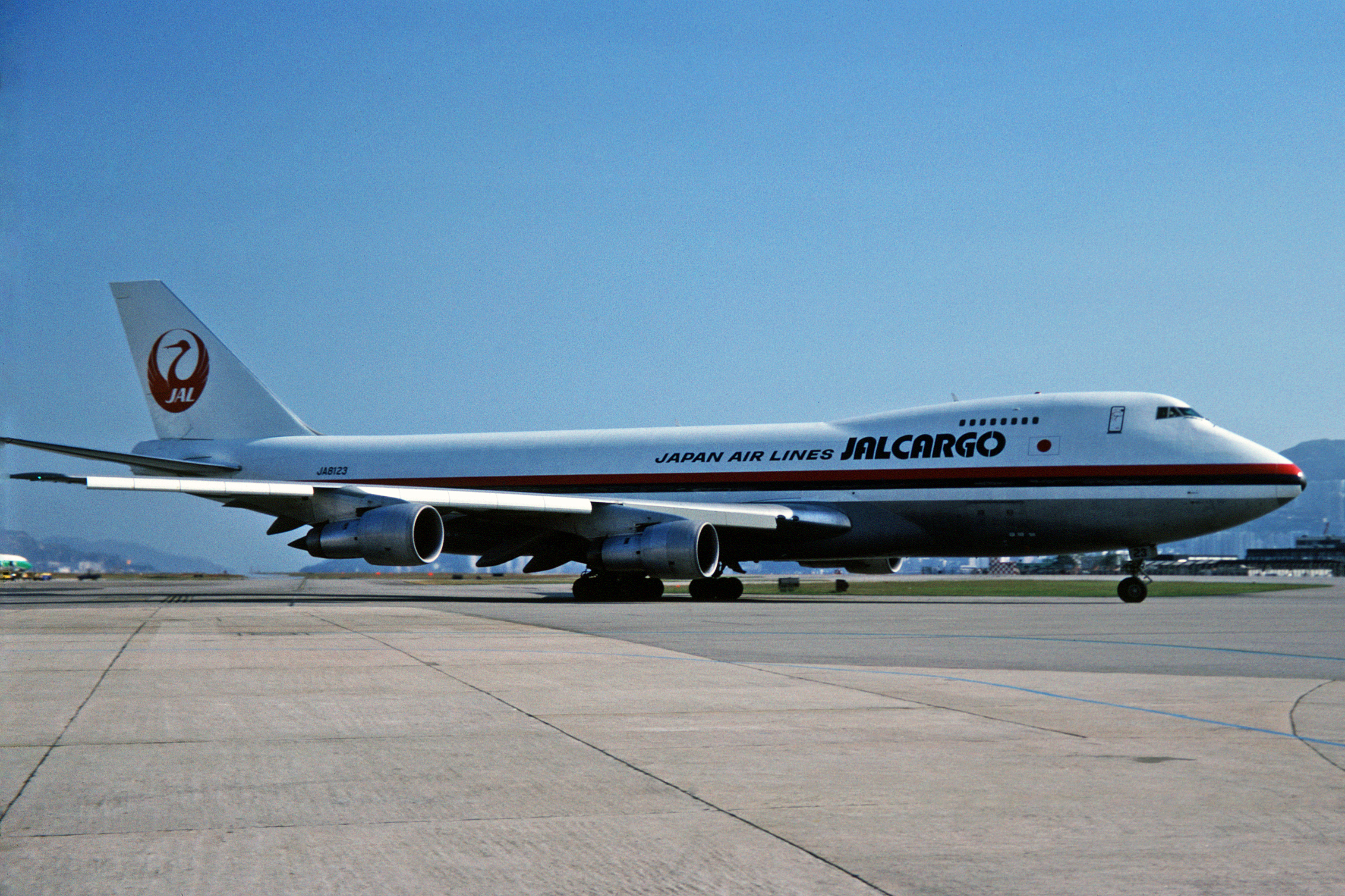 The very first 747 freighter for Japan.